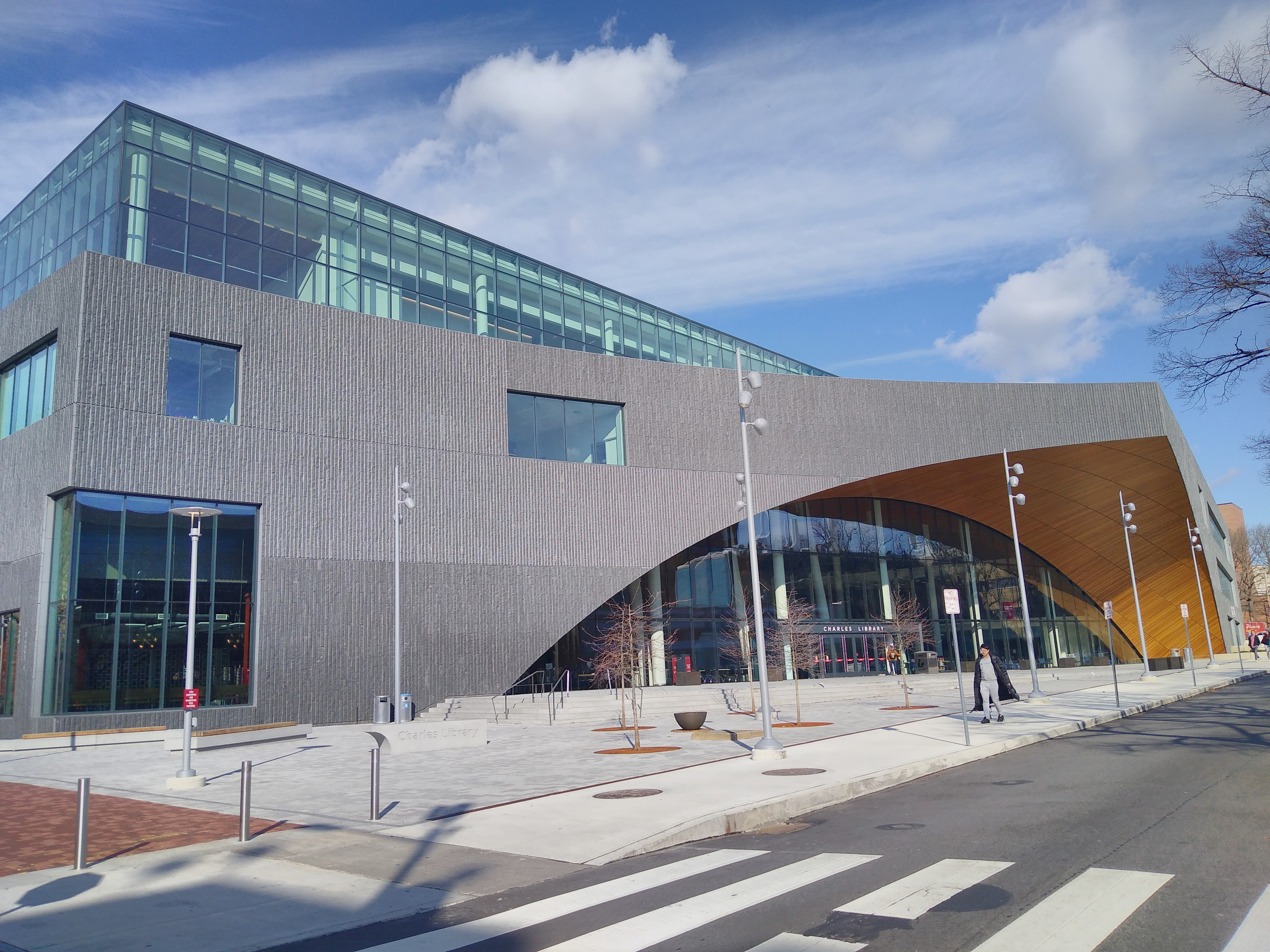 looking north at new library